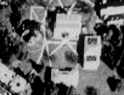 An overhead view of Vassar College's academic quad: starting at top and going counterclockwise, Seeley G. Mudd Chemistry Building, Sanders Classrooms, Sanders Physics, and the New England Building.